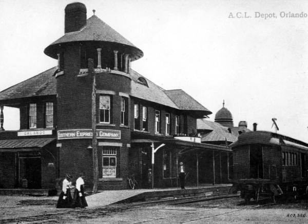 Local call number: RC01509 Title: Old Orlando Railroad Depot Date: ca. 1910 General Note: The Old Orlando Railroad Depot, located at Depot Place and West Church Street in downtown Orlando, Florida, was built for railroad magnate Henry B. Plant in 1889. It was added to the National Register of Historic Places in 1976. Physical descrip: 1 photoprint - b&w - 8 x 10 in. Series Title: Reference Collection Repository: State Library and Archives of Florida, 500 S. Bronough St., Tallahassee, FL 32399-0250 USA. Contact: 850.245.6700. Persistent URL